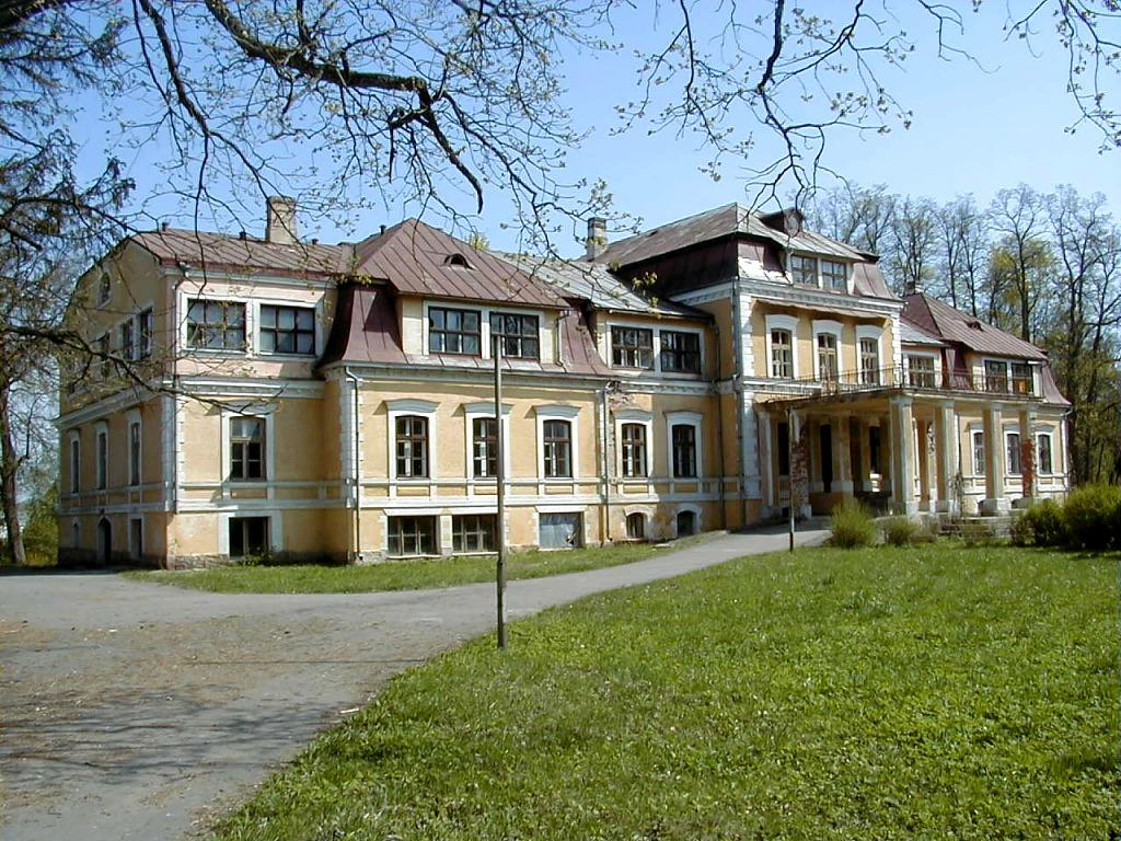 Dikļi Manor